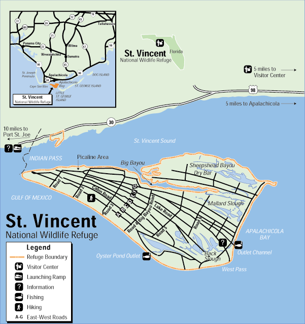 St. Vincent Island National Wildlife Refuge trail map